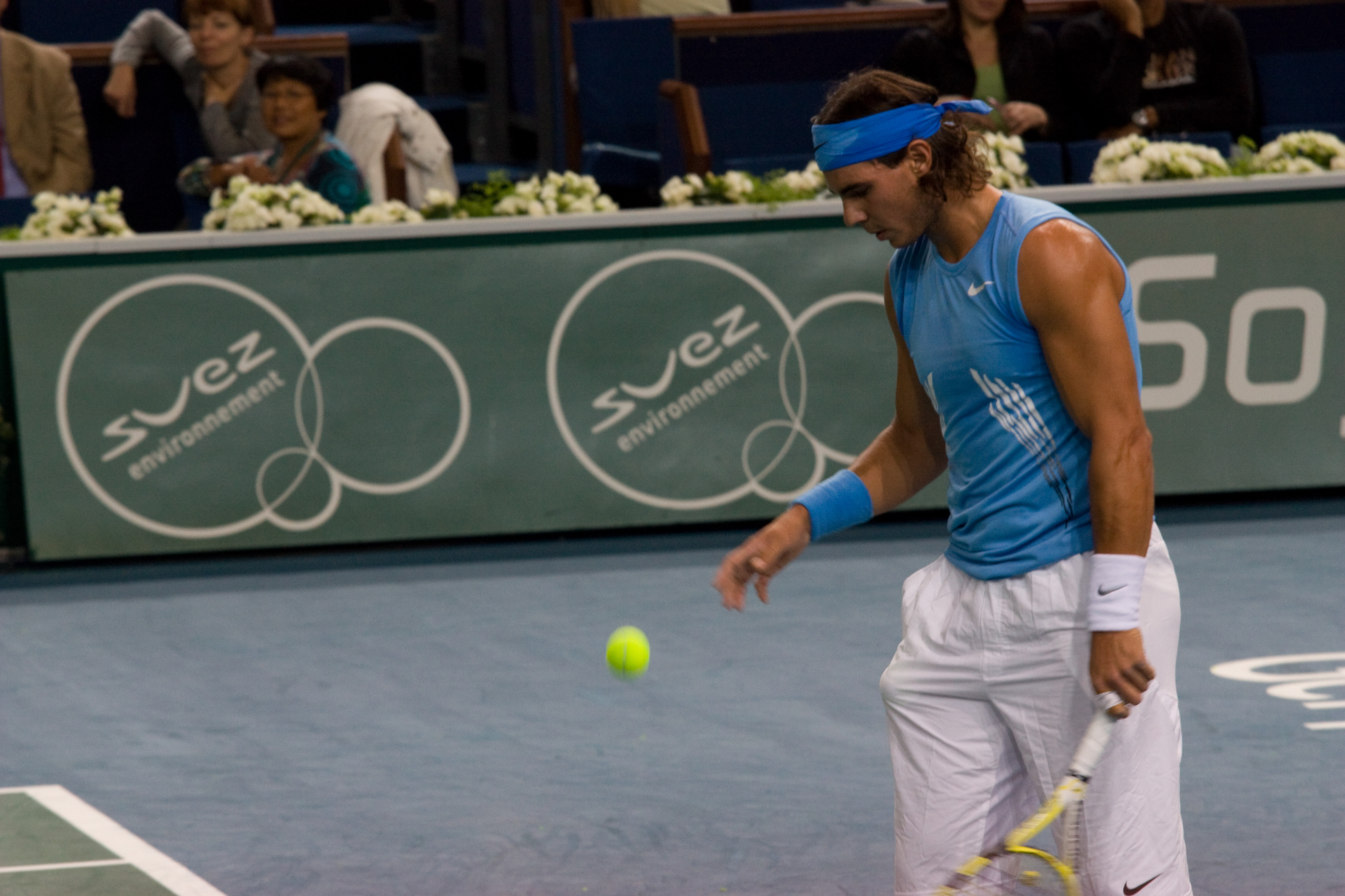 Rafael Nadal against Florent Serra at the 2008 BNP Paribas Masters